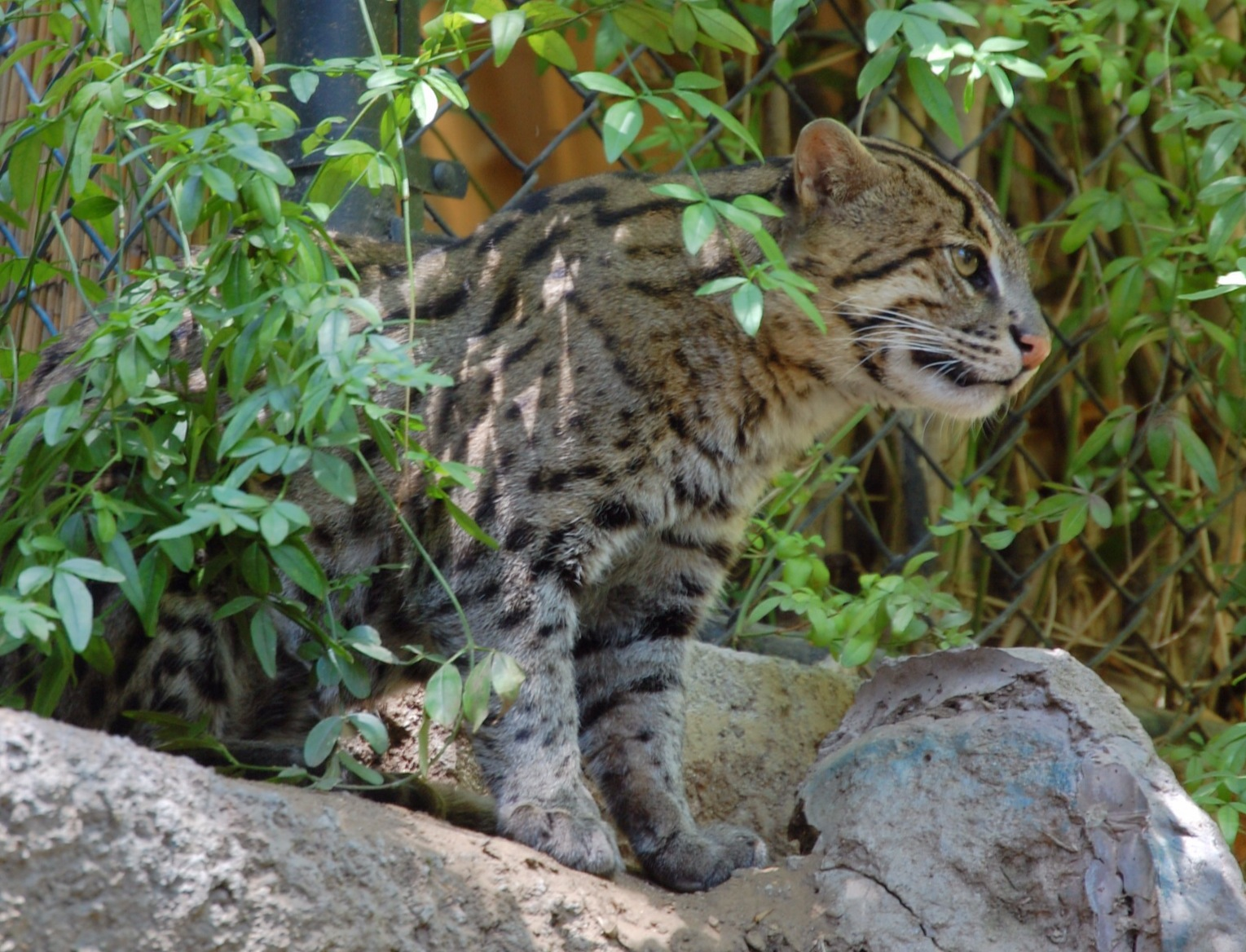 A Fishing Cat at San Diego Zoo, California, USA.